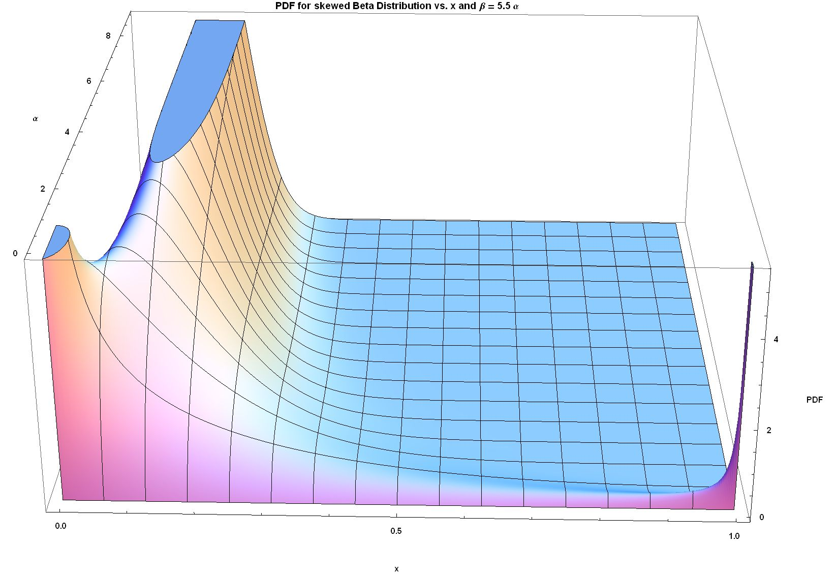 PDF for skewed beta distribution vs. x and beta= 5.5 alpha from 0 to 9 - J. Rodal